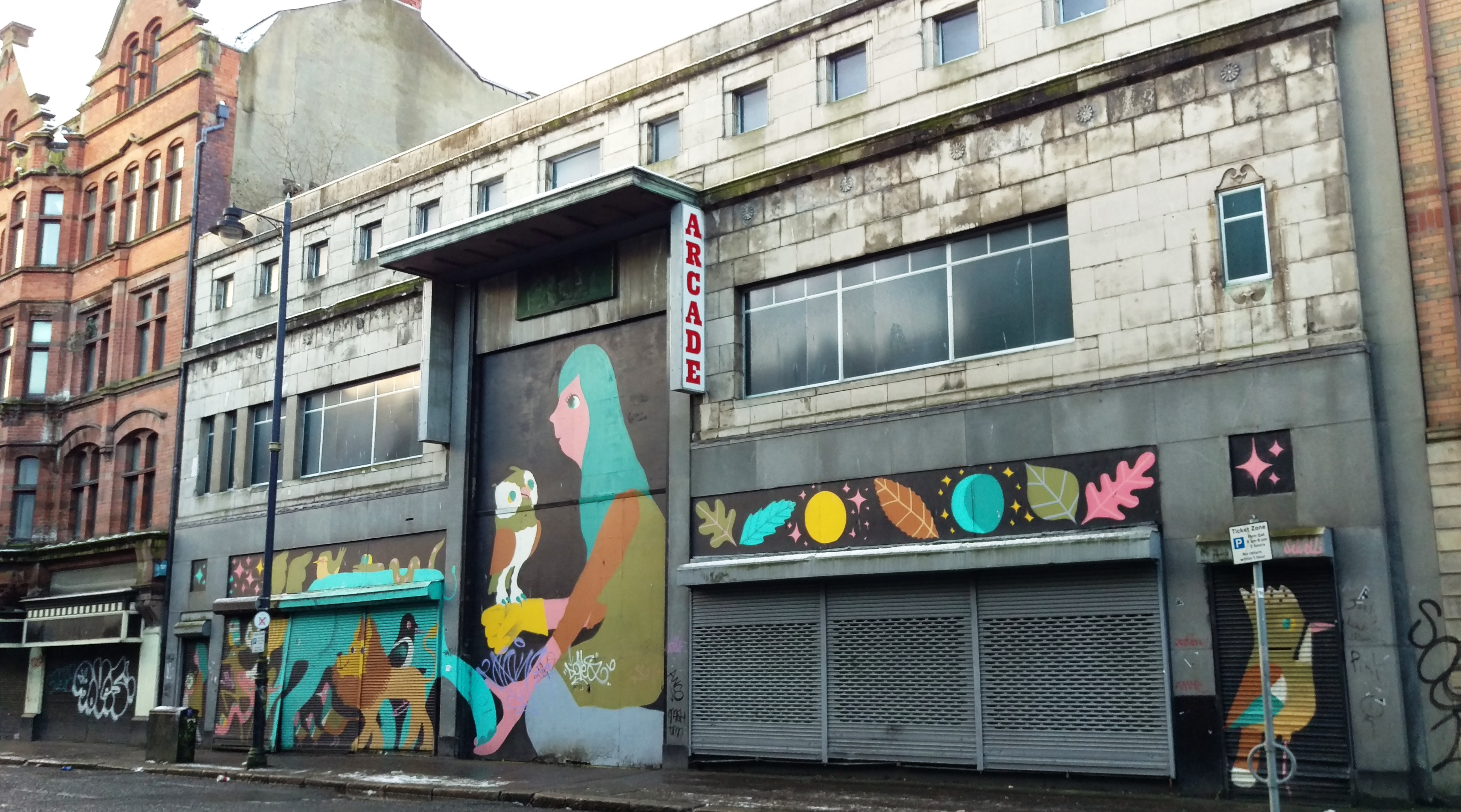 Donegall Street frontage of the North Street Arcade, Belfast, 9 December 2017.